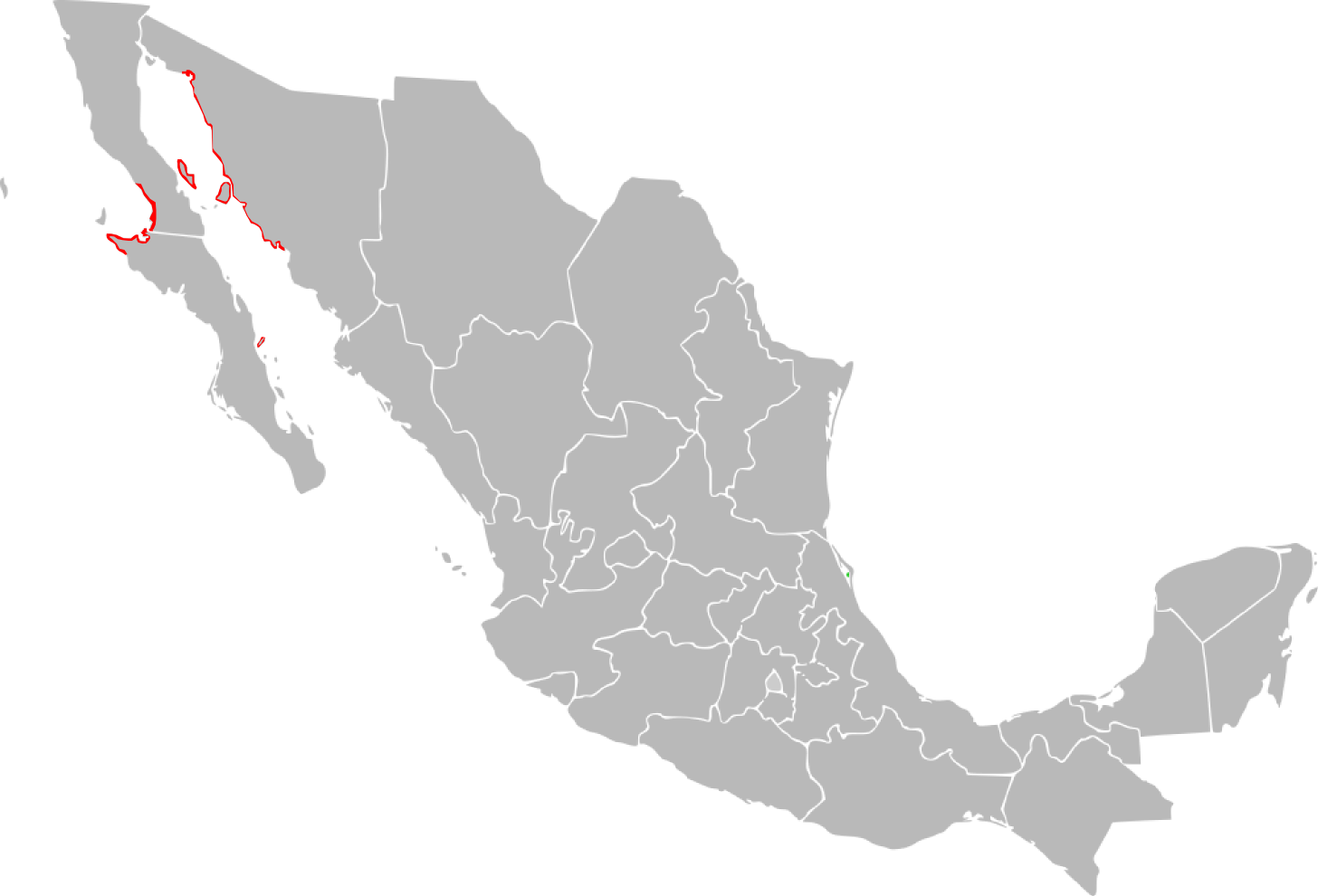 Myotis vivesi range map.